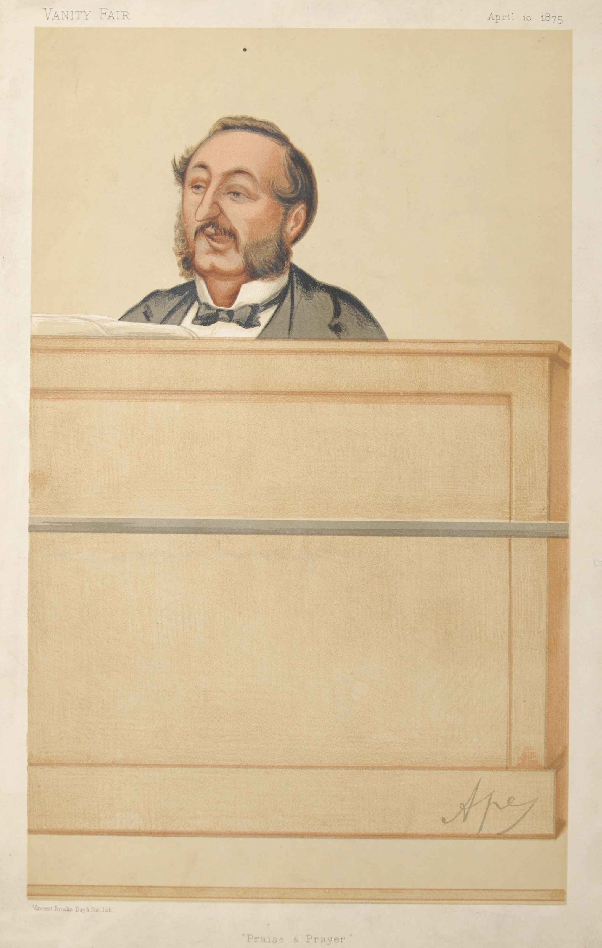 Men or Women of the Day No.102: Caricature of Mr ID Sankey. Caption reads: "Praise and Prayer."